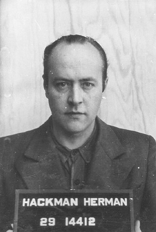 Hermann Hackmann, SS-Hauptsturmführer, from 1939-1941 adjutant of Karl Koch who was commandant of the concentration camp at Buchenwald